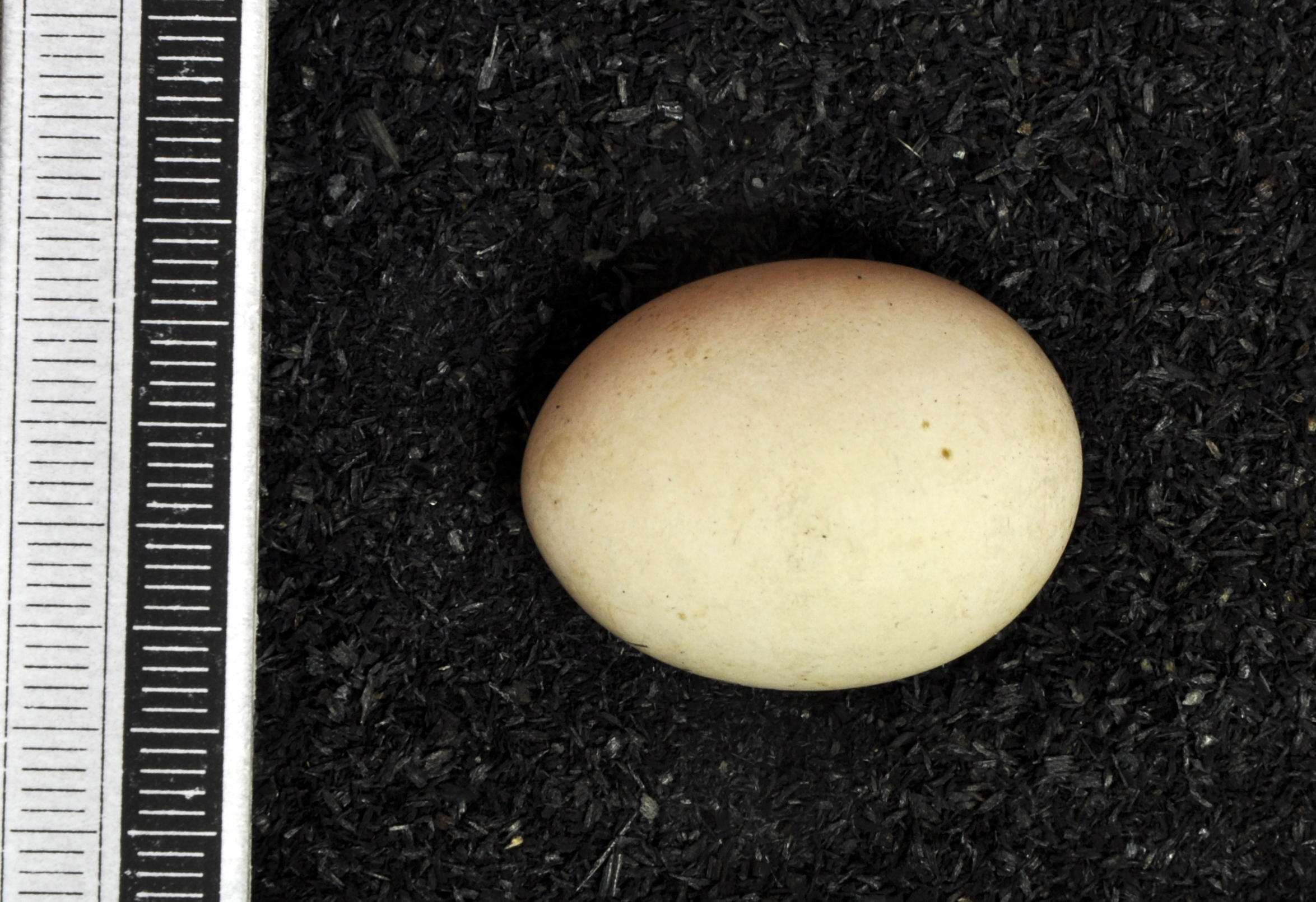 European storm petrel Hydrobates pelagicus , egg, Coll. Museum Wiesbaden